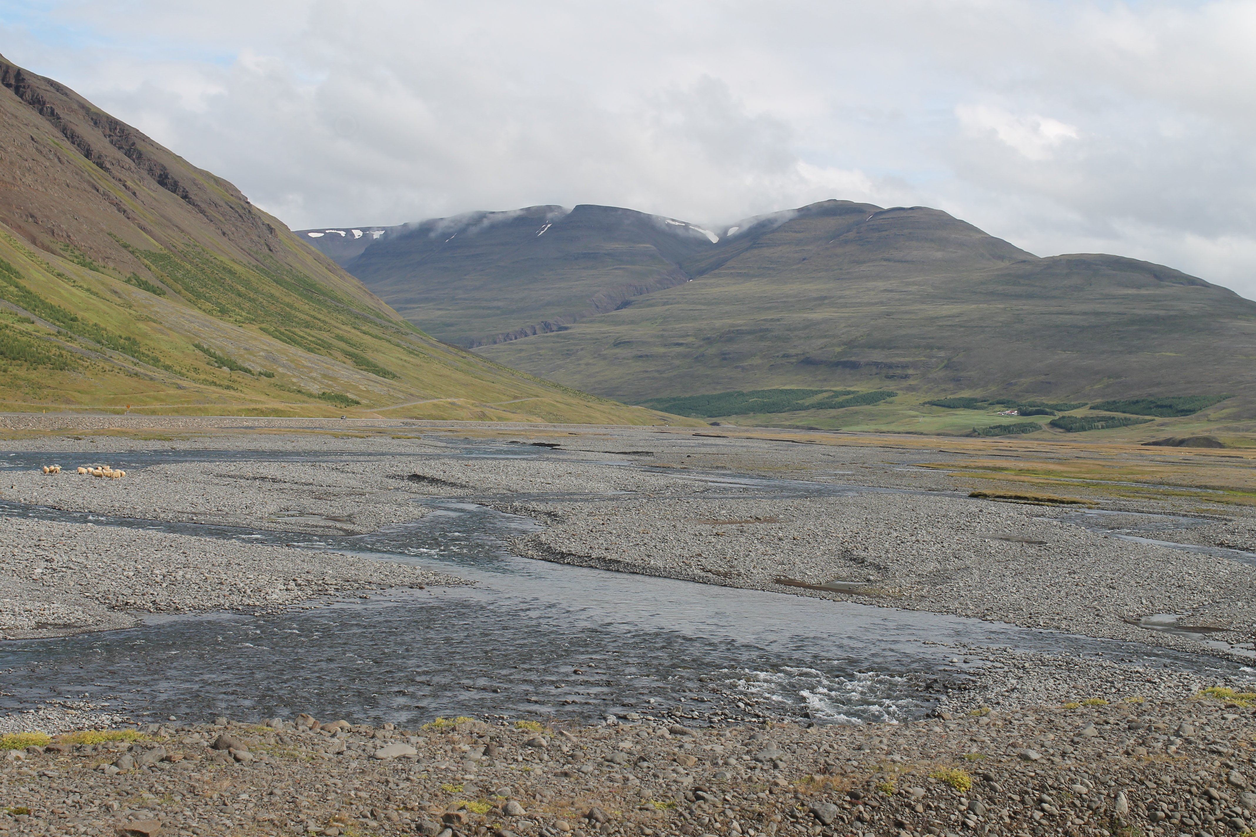 Norðurá river in Skagafjörður, Northern Iceland, seen towards east from Norðurá bridge.